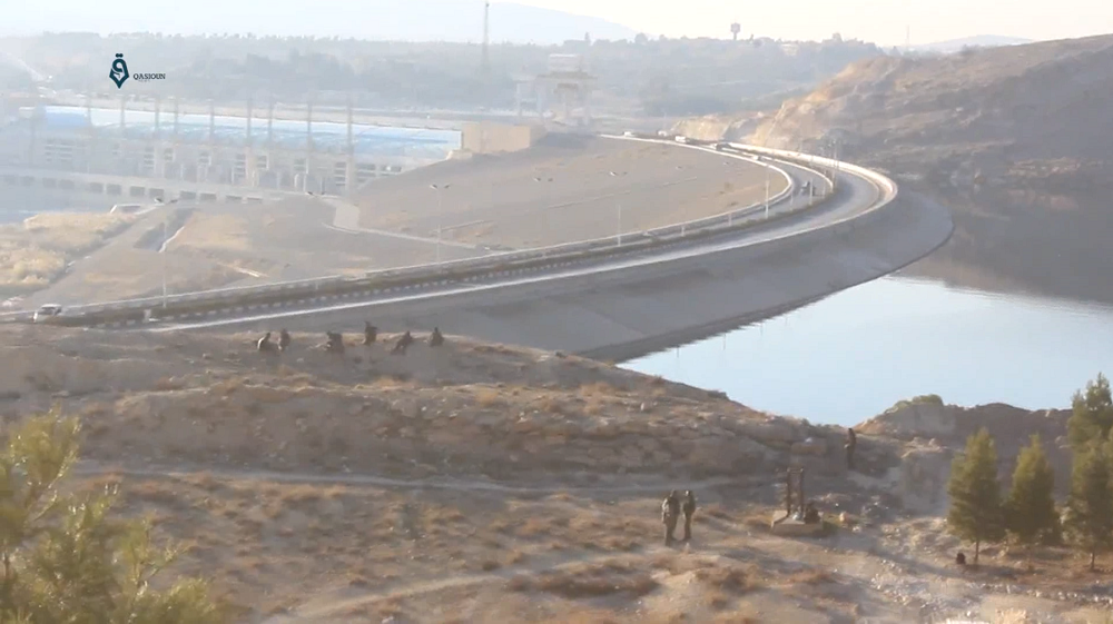 SDF fighters at the Tishrin Dam.